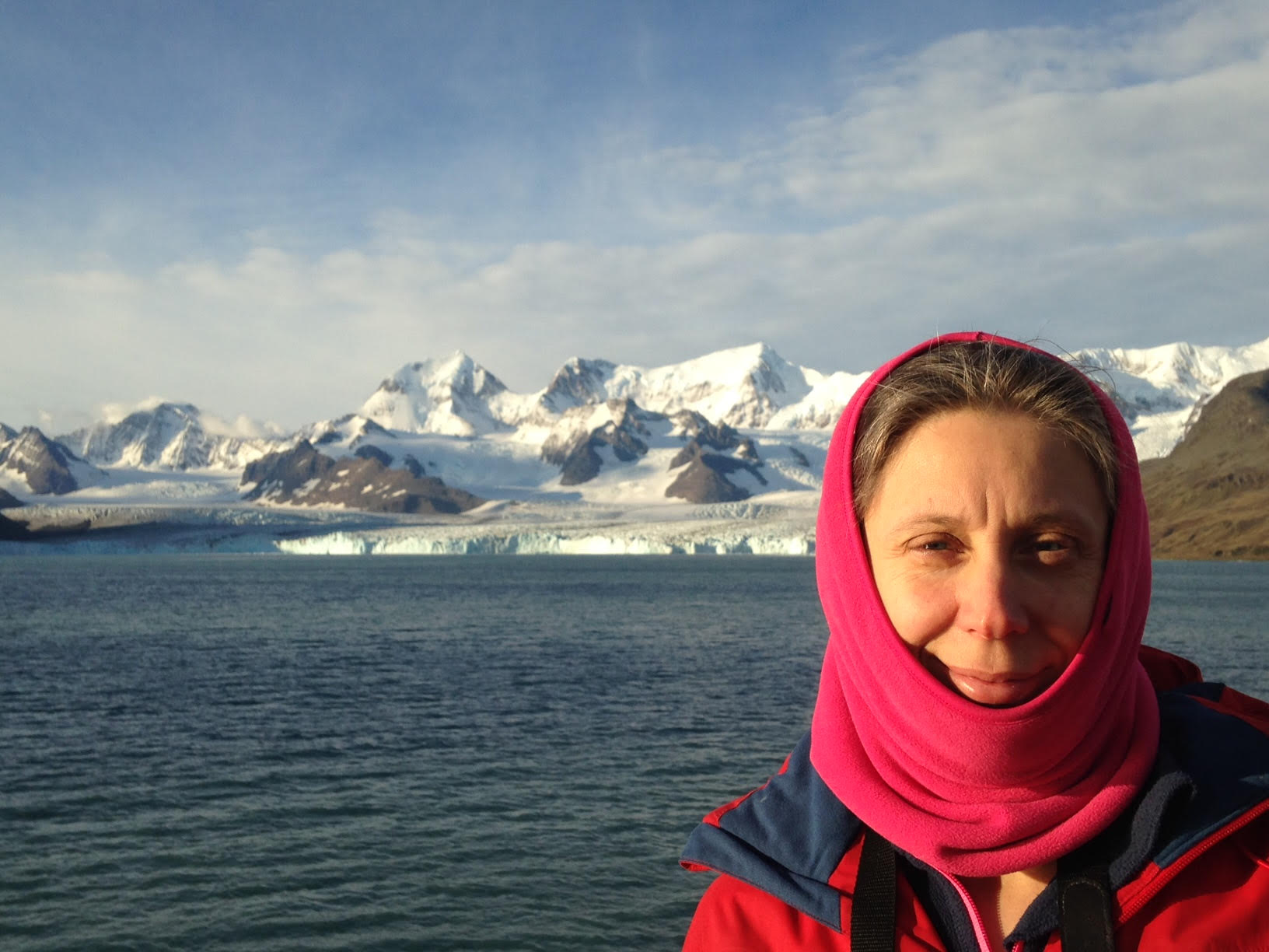 Louise Allcock in front of South Georgia from RRS James Clarke Ross, March 2016.